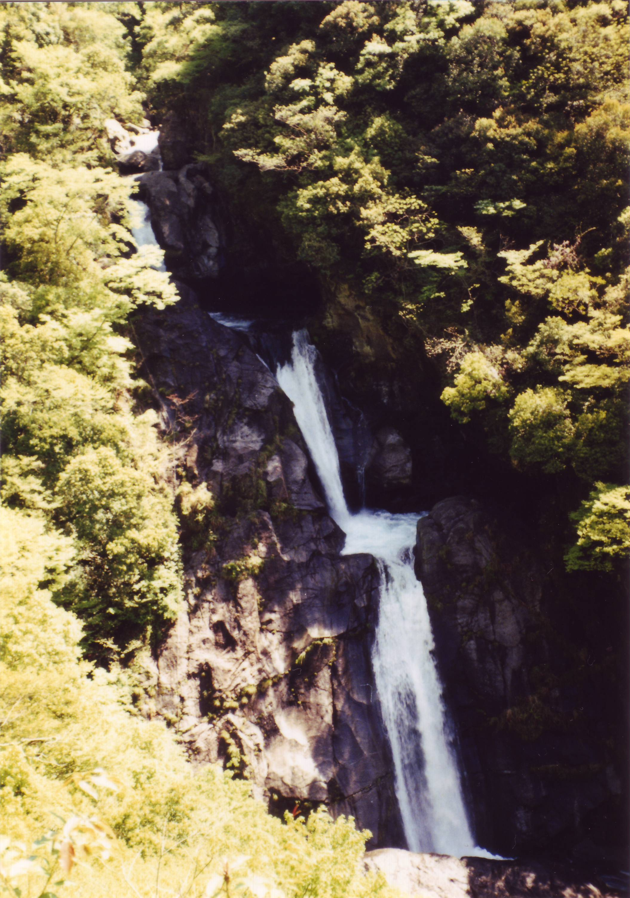 Todoro-no-taki is a waterfall in Kahokucho, Kami, Kochi, Japan.